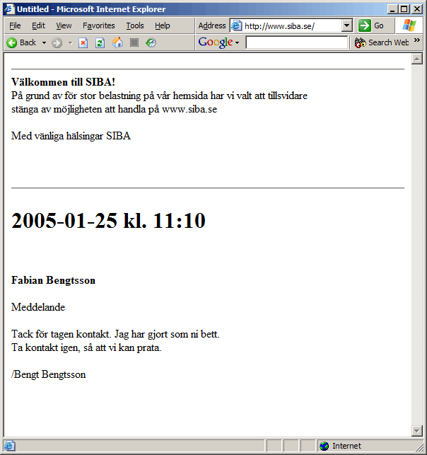 Siba.se during the kidnapping of Fabian Bengtsson